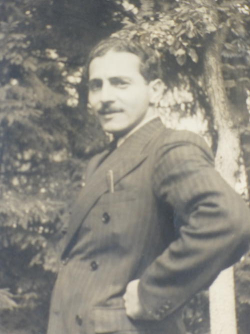 Picture of Ernesto Pinto-Bazurco